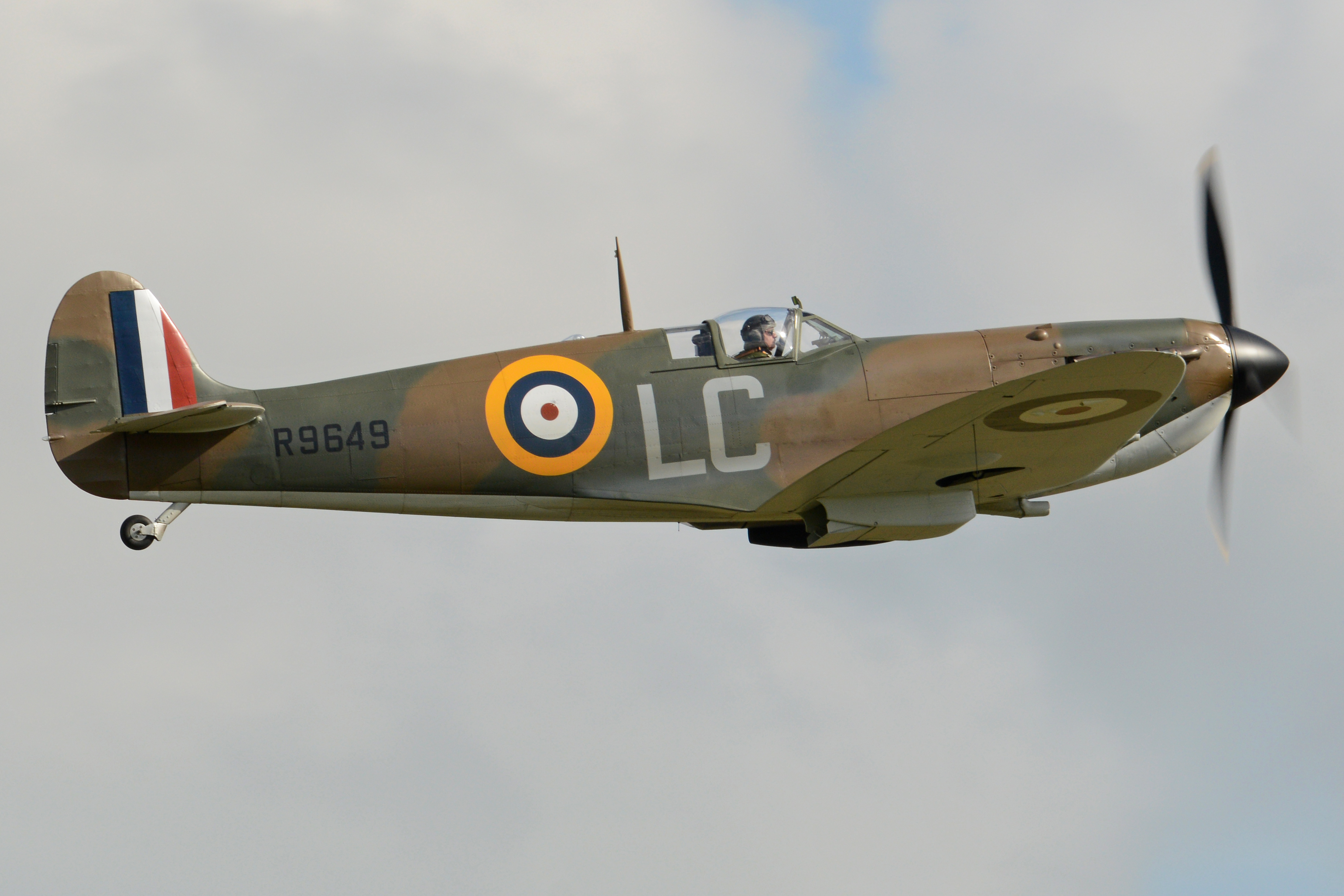 c/n CBAF.2405. Actual British military serial EP122. Recently restored and making her first Flying Legends appearance, EP122 was wearing a temporary colour scheme for the filming of the ‘Dunkirk’ movie. She is operated by Comanche Fighters and is seen getting airborne to take part in the ‘Balbo’ at the 2016 Flying Legends airshow, Duxford, Cambridgeshire, UK. 10th July 2016